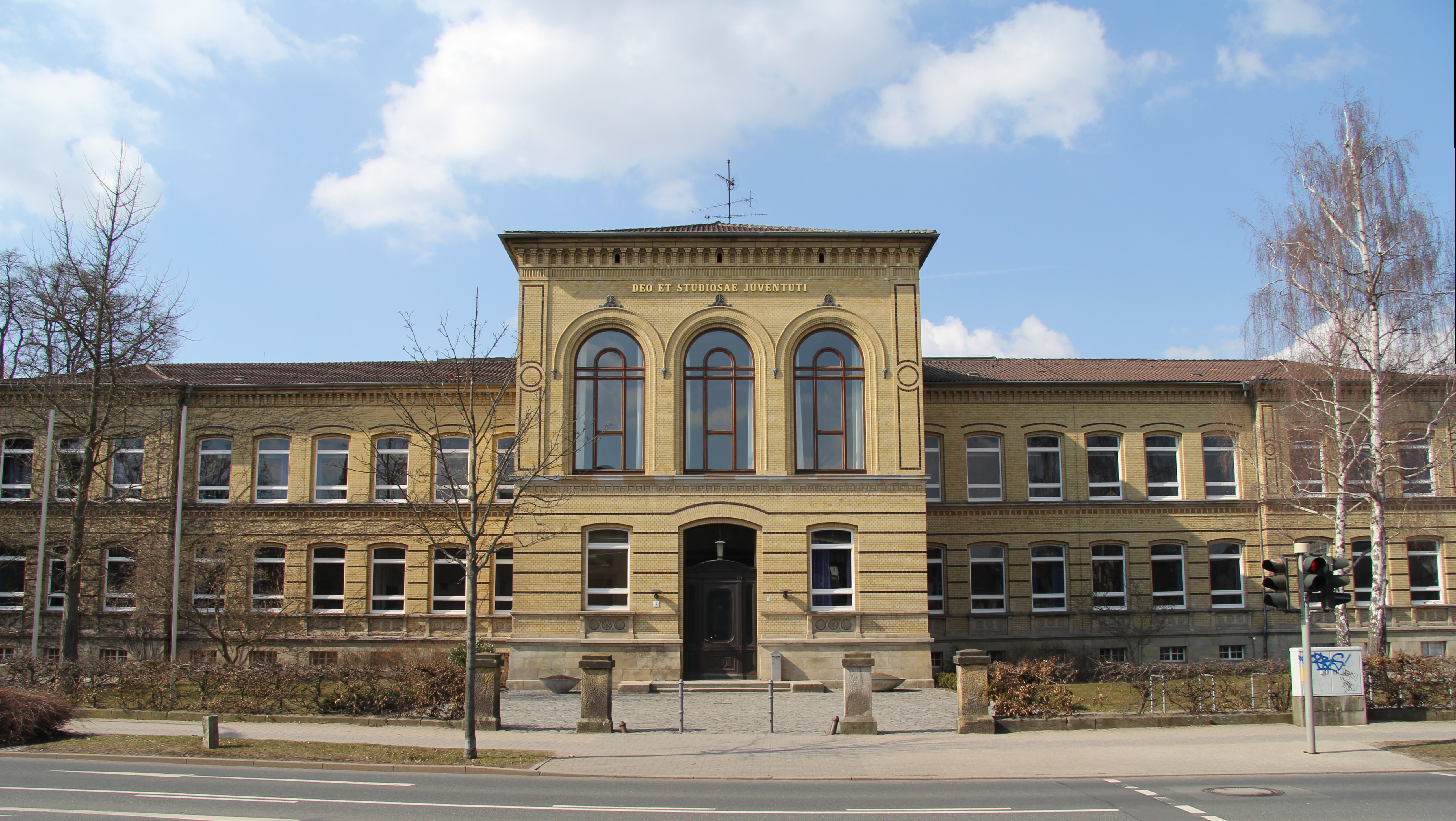 Front view of main building of "Grosse Schule" high school in Wolfenbüttel, Lower Saxony/Germany